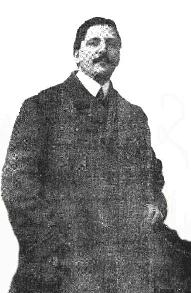 Roberto Bracco, in De tots colors magazine of 28.4.1911